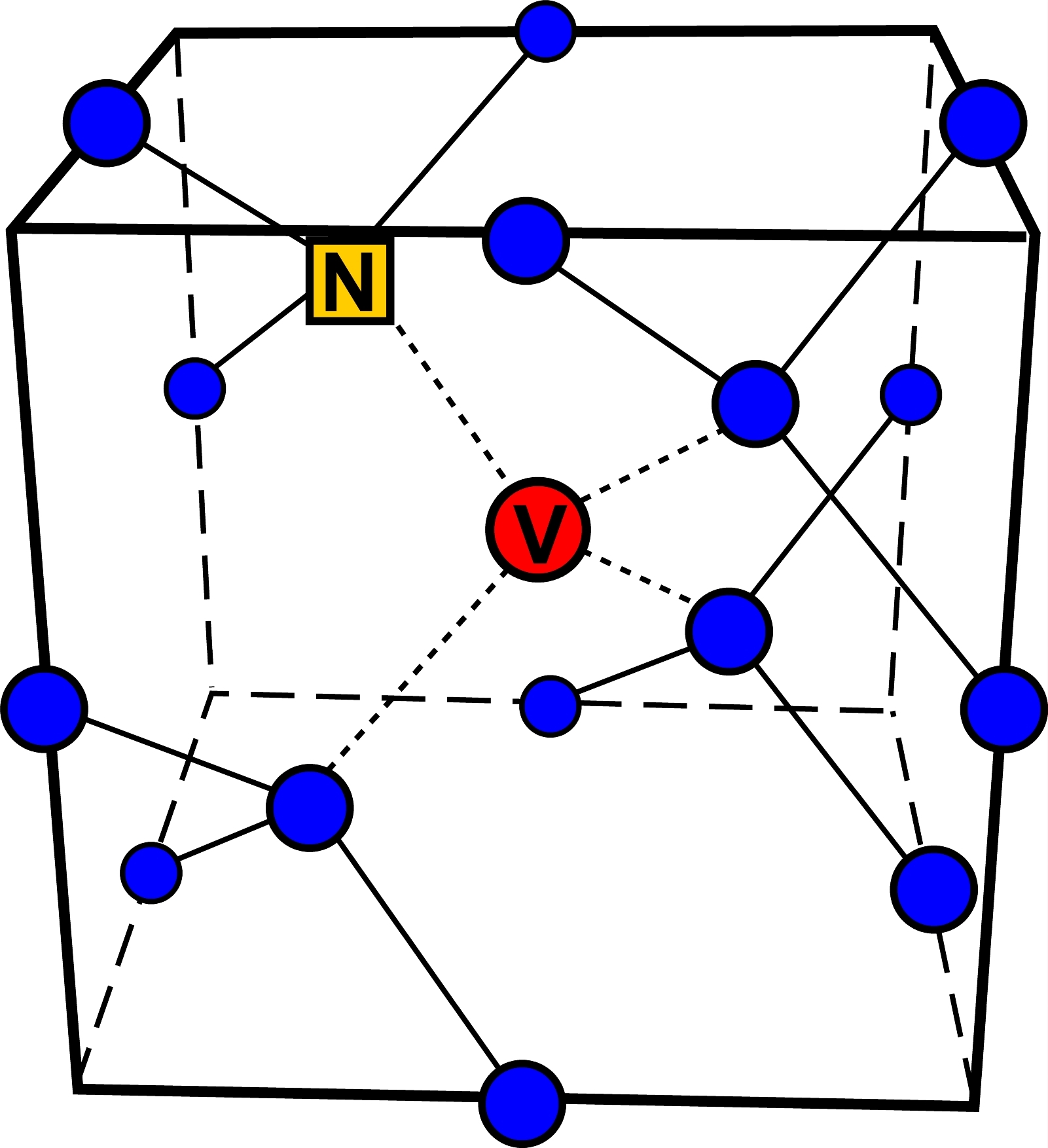 Atomic Structure of the NV-center.